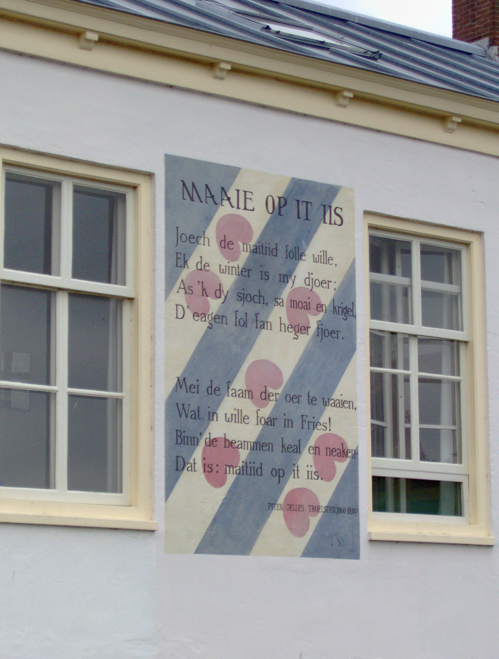 The poem Maaie op it iis of the Frisian lawyer, journalist and politician Pieter Jelles Troelstra on a wall of the building at Weddesteeg 4 in Leiden, The Netherlands